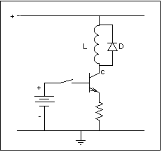 Inductor and protection diode in a transistor collector. 2006. Note: Transistor acts as a constant-current sink here.